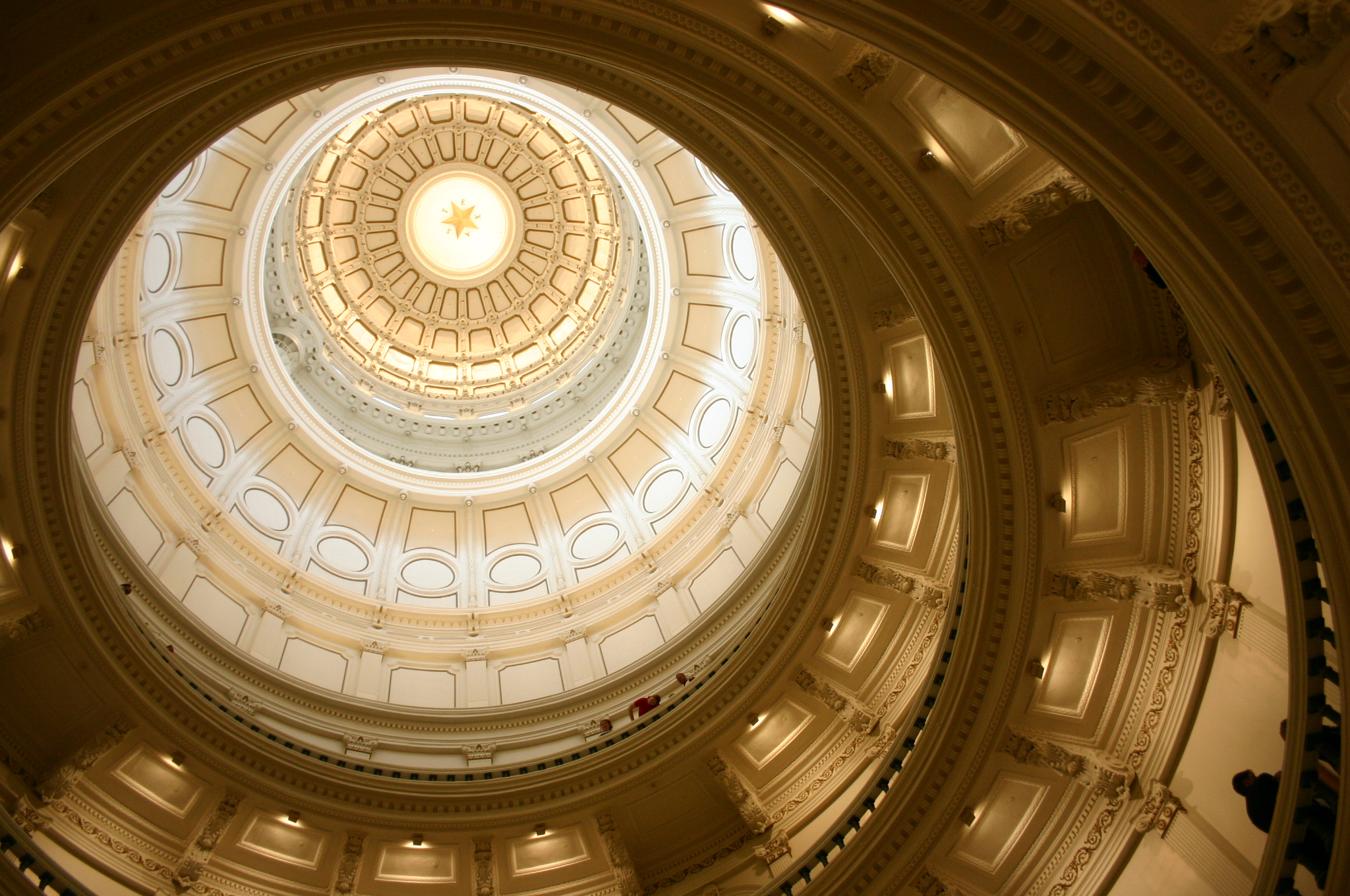 Layers under the dome of Texas State Capitol